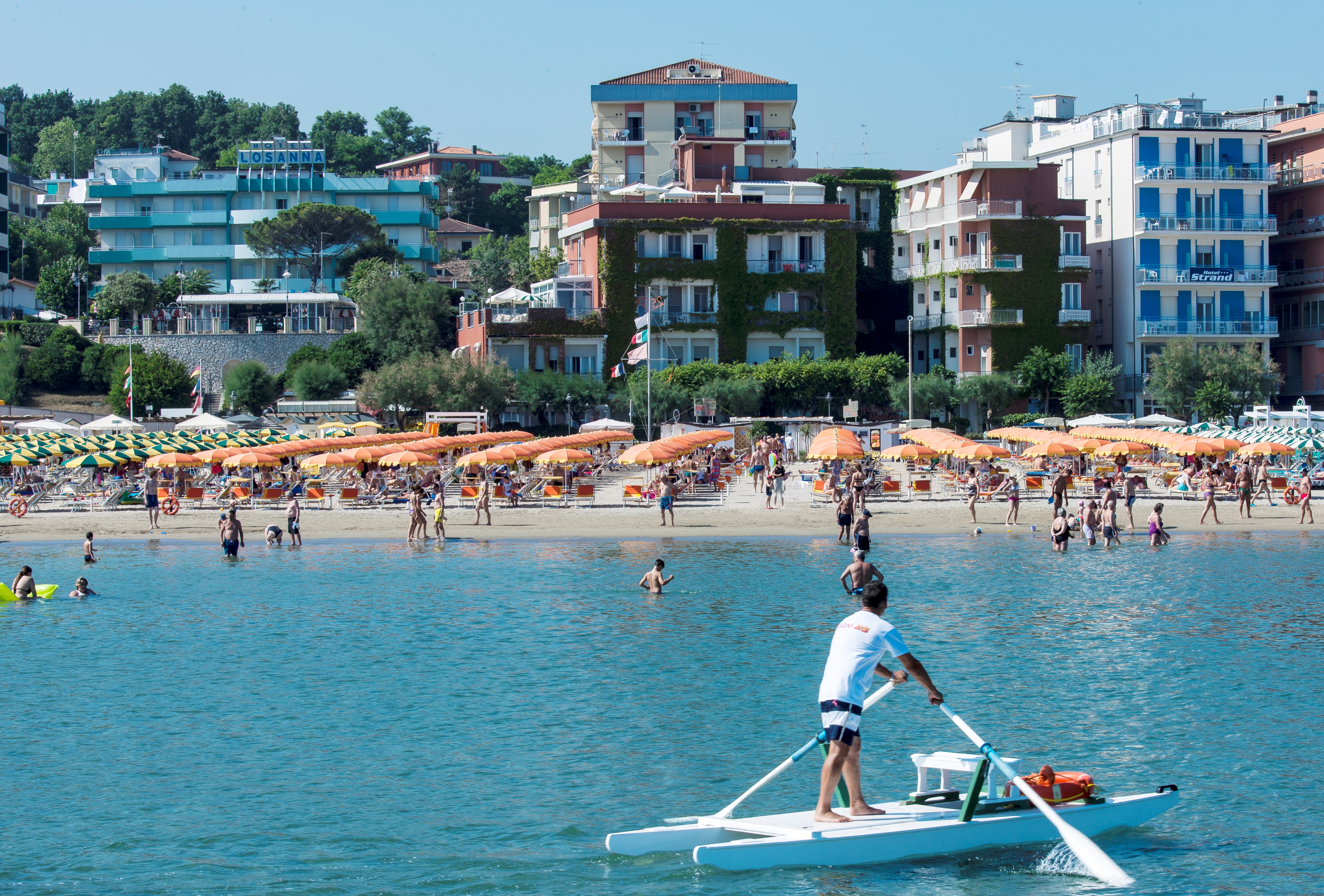 Gabicce_Mare.Rmagna Adriatic Cost